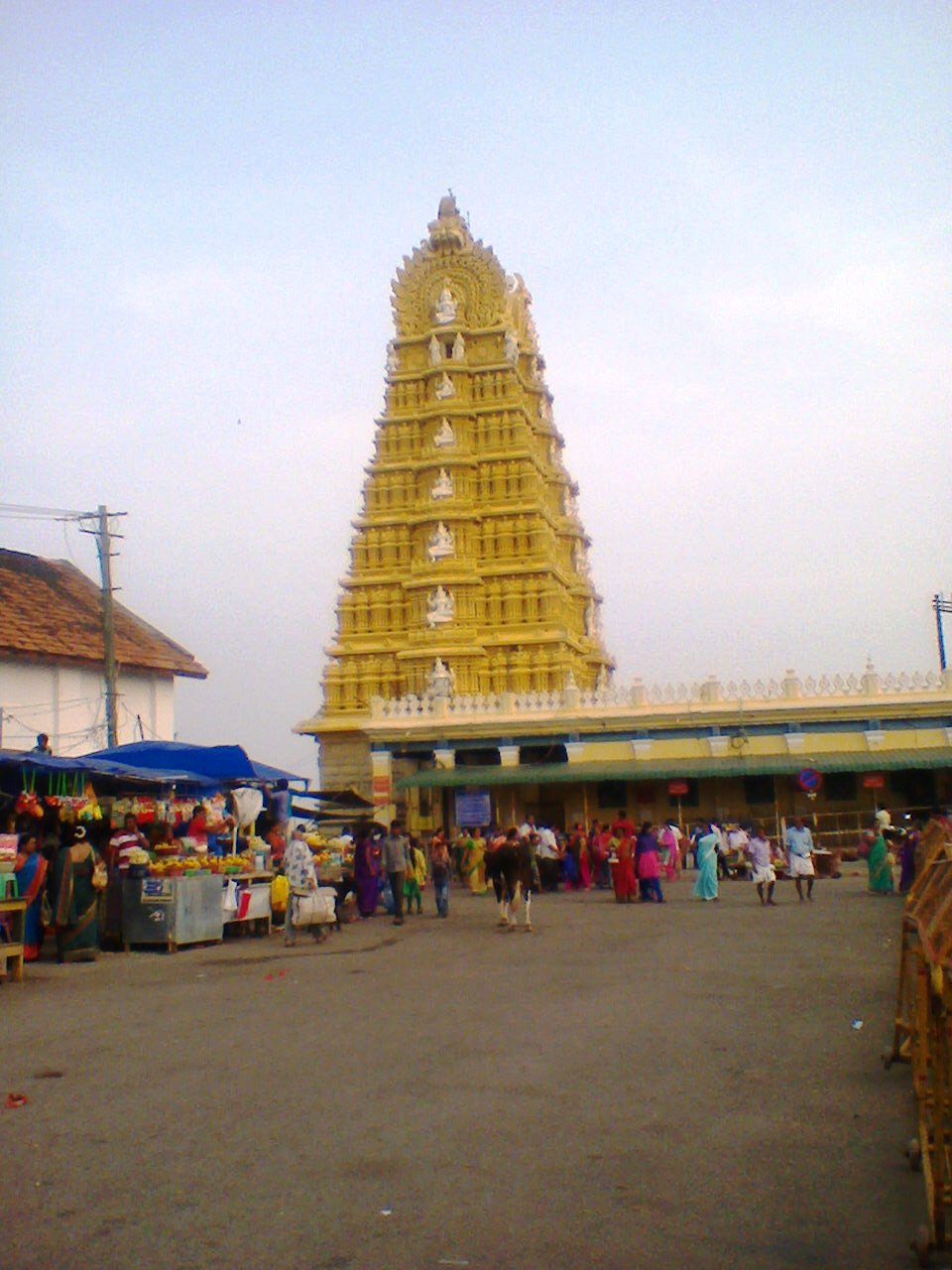 Chamundi area, Mysore, India